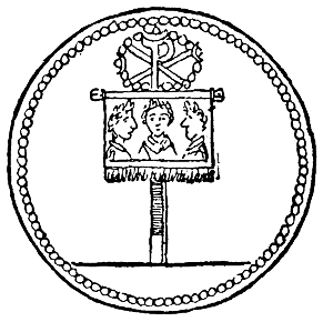 The labarum of Constantine I on an antique silvermedal